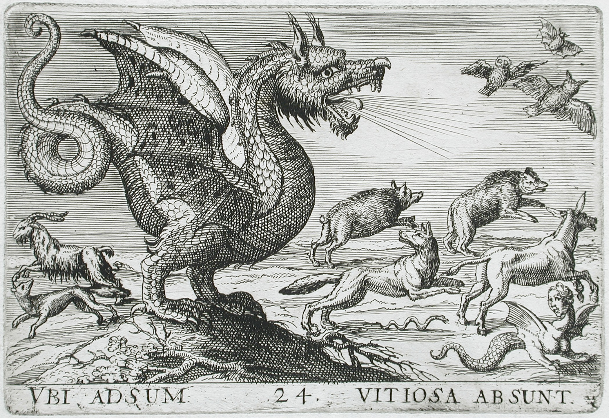 Holland, 1610 Series: Battling Animals, pl. 24 Prints; etchings Etching Los Angeles County Fund (65.37.319) Prints and Drawings